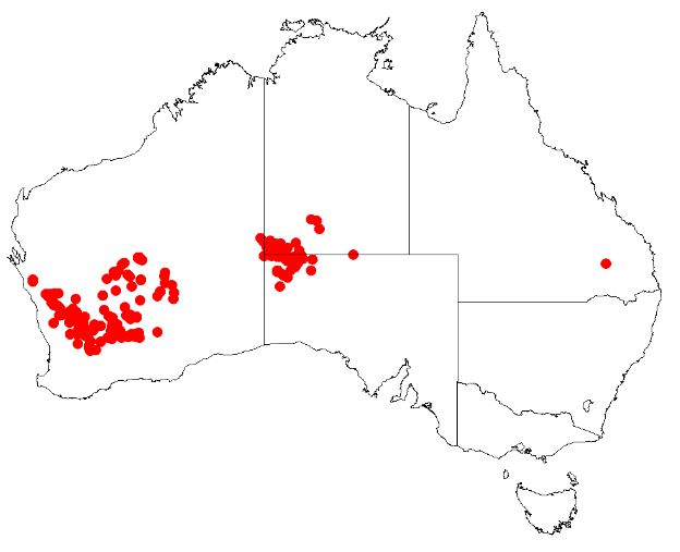 Hakea minyma Occurrence data downloaded from AVH on 22 November 2018 using